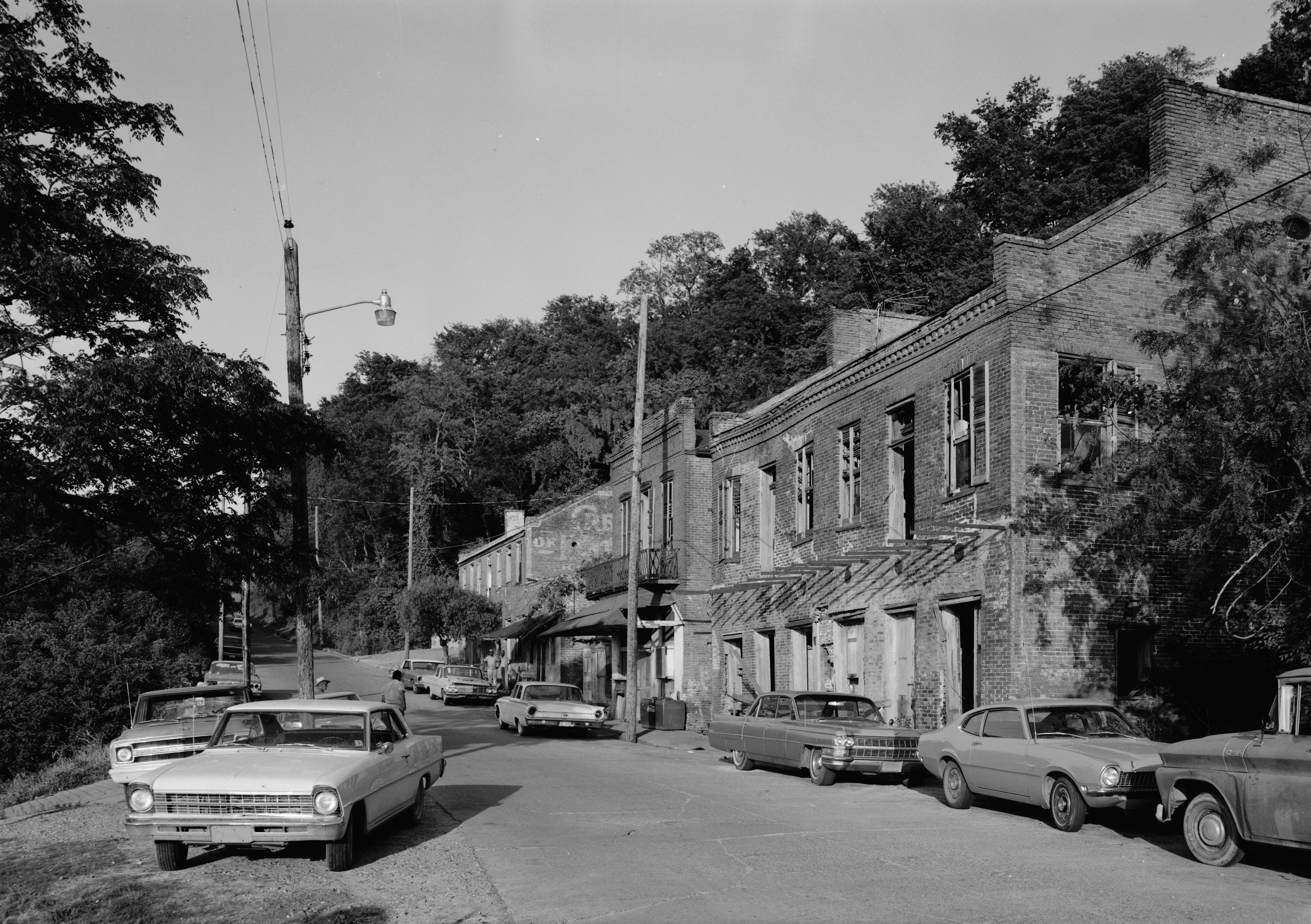 Buildings on the southern side of Silver Street near the Mississippi River waterfront in Natchez, Mississippi, United States. Built circa 1871, it is part of the Natchez Bluffs and Under-the-Hill Historic District, a historic district that is listed on the National Register of Historic Places.